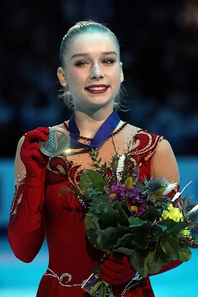 Viveca Lindfors at the 2019 European Championships - Awarding ceremony